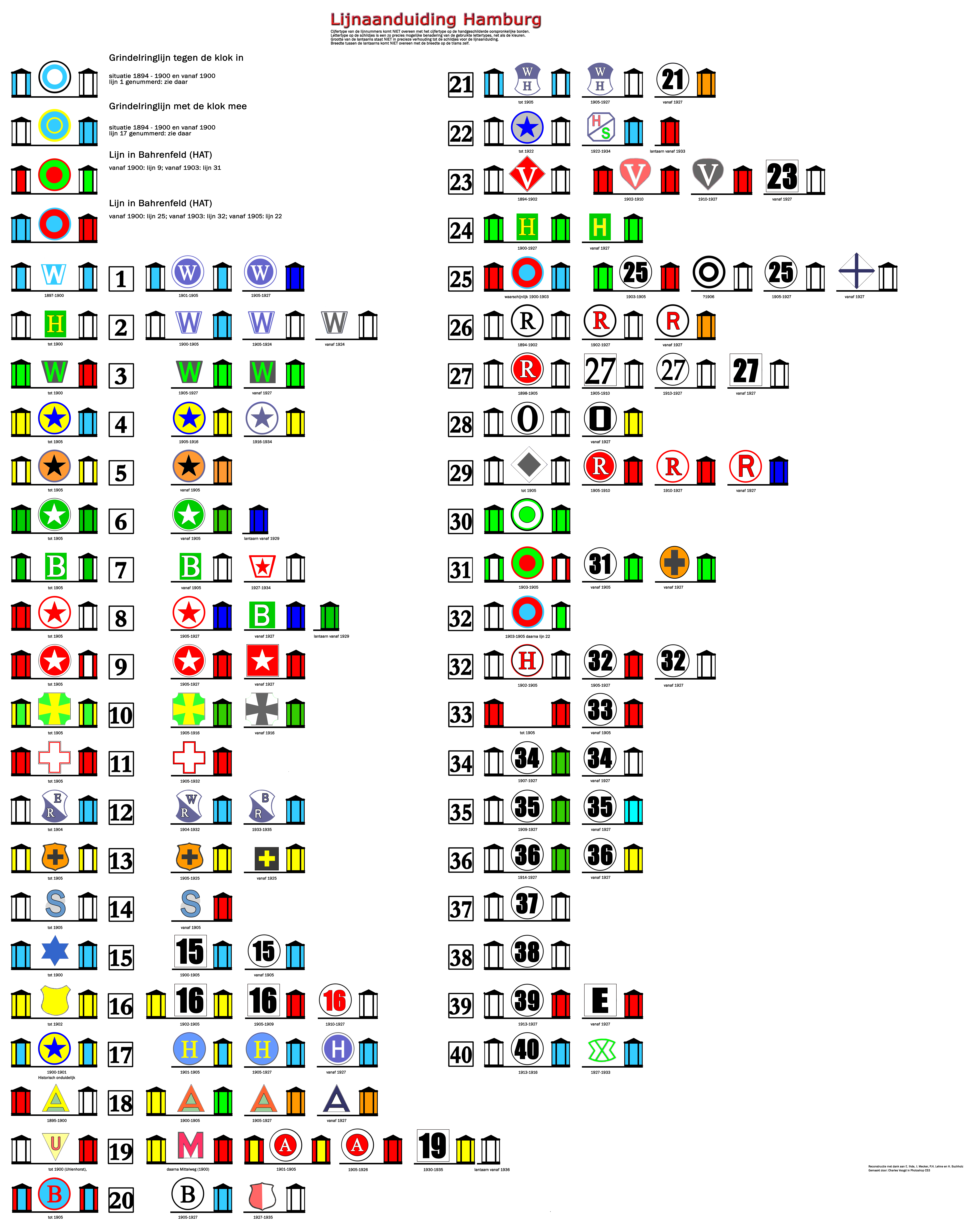 Routeplates Hamburg tram